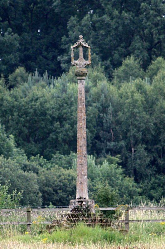 The old (c.1500) lantern cross from Mountsorrel that now stands in Swithland, having been moved there in the 18th century by the owner of Swithland Hall.